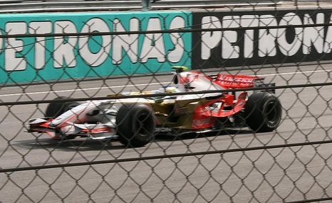 Giancarlo Fisichella driving for Force India at the 2008 Malaysian Grand Prix.